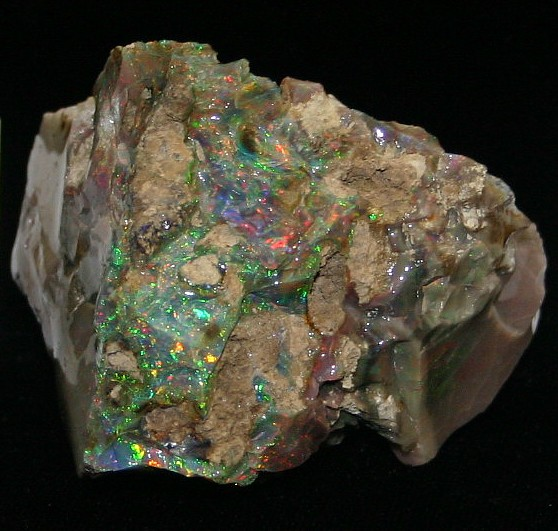 Source: Chris Ralph. This photo taken by Chris Ralph of [1], Photographer and author: photo taken by author.